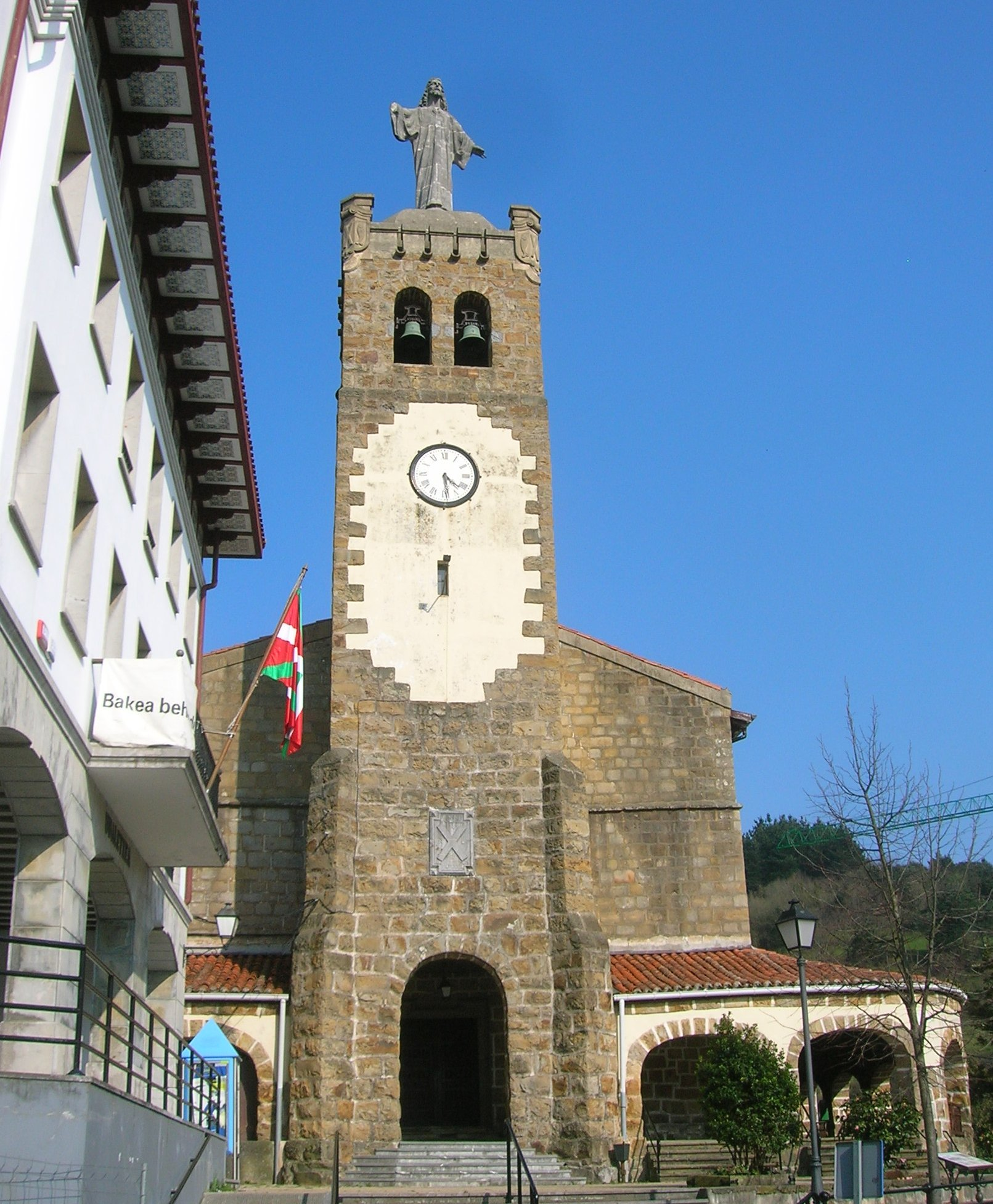 Saint Andrews Church and Town Hall in Ibarrangelua, Biscay, Spain